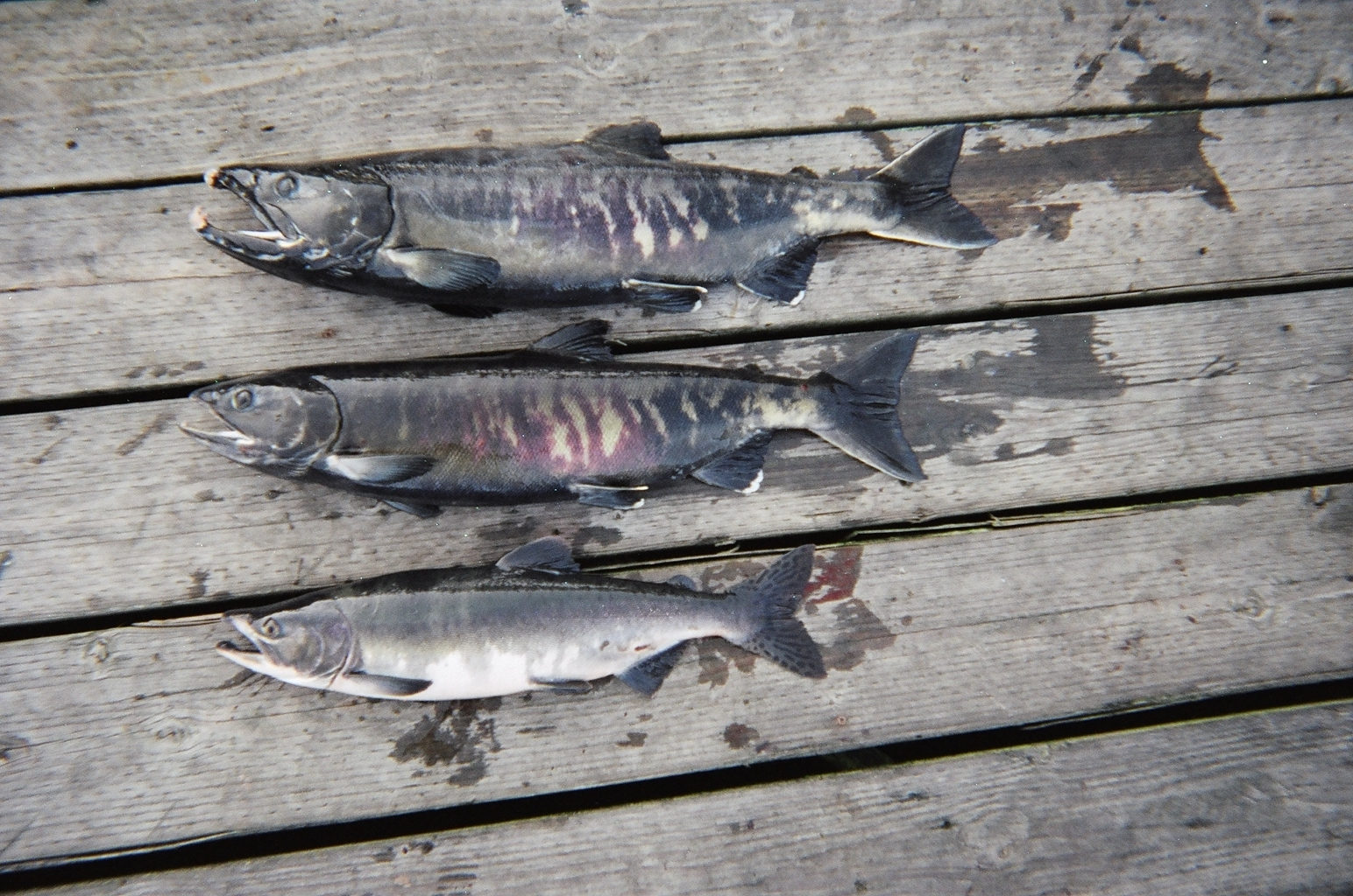 species: Oncorhynchus keta Top: Male Chum salmon..note the white (teeth) at the tip of the jaws and absence of rounded belly. Middle: Female Chum salmon..note the more rounded belly and slightly smaller size. Bottom: Female Pink salmon for size comparison (again note rounded belly). Bottom- 26.8in(681mm) female Date: Nov. 19, 2005(JST) Hokuriku region, Japan. Caught & Photo by Vineyard WARNING!: When use this photo to external website or printed matter etc., you must mention author(Vineyard) by all means.